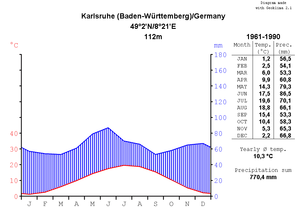 climate chart of Karlsruhe, Baden-Württemberg, Germany, for the period of time from 1961 to 1990, in the format by Walter and Lieth, metric, °Celsius and millimeters, chart made with Geoklima 2.1, label in English